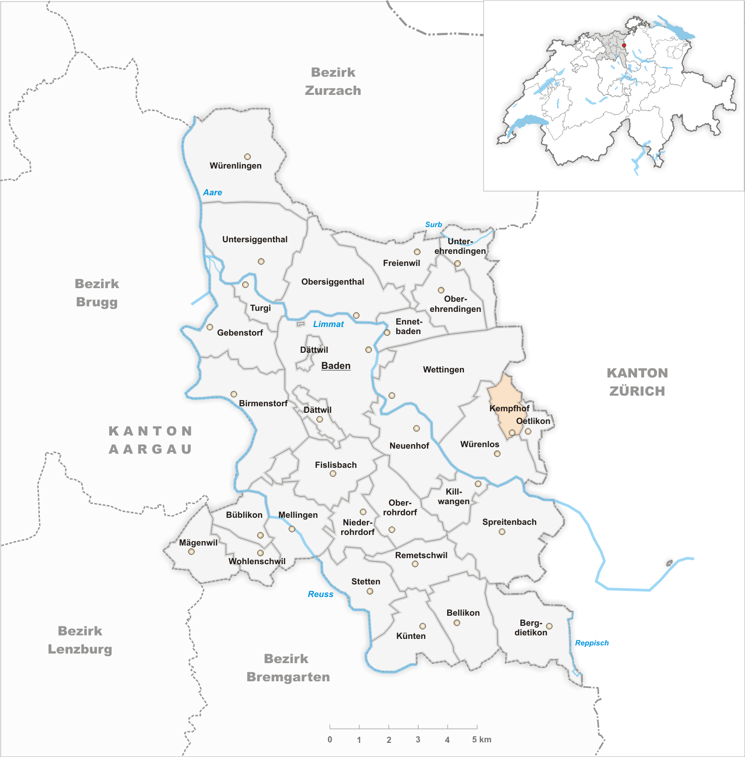 Municipality Kempfhof